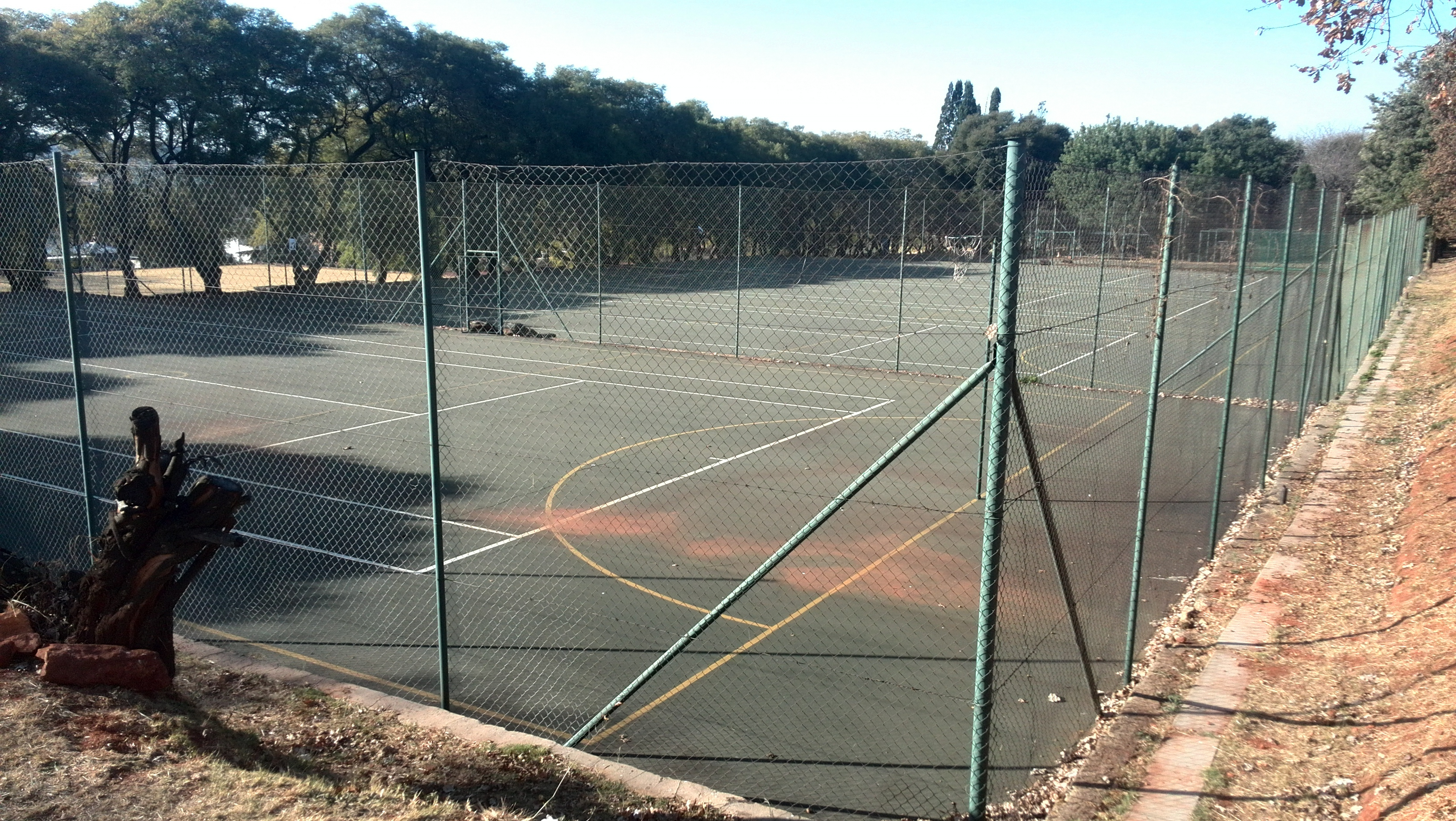 More Jeppe netball